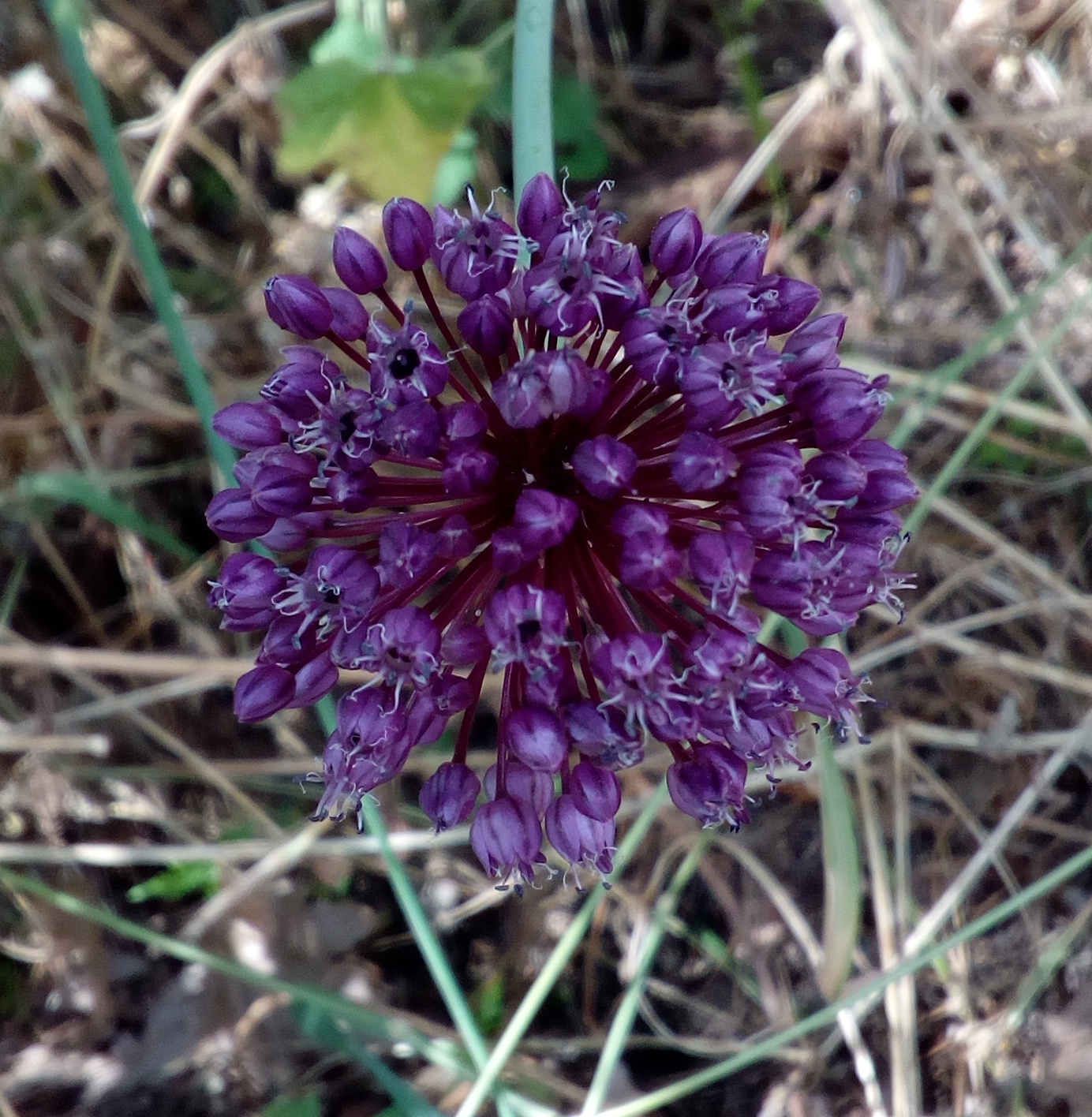 Allium ampeloprasum, wild leek or broadleaf wild leek